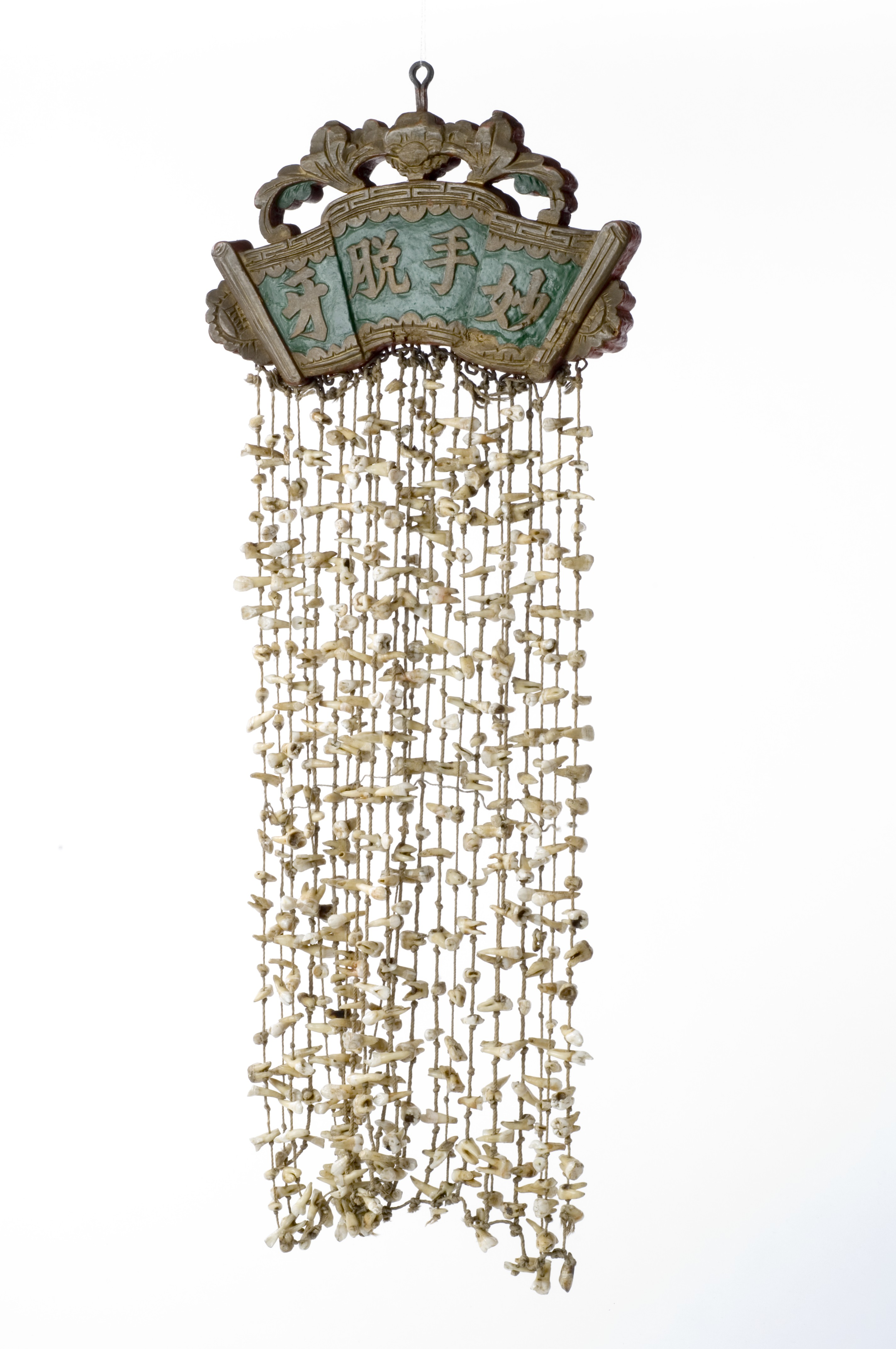 This wooden signboard is hung with human teeth. The inscription translates roughly as 'doctor for treating various diseases'. For those prospective patients unable to read the strings of teeth would have been a striking visual. Wellcome Images Keywords: Dentist; Tooth; Dentists; Teeth